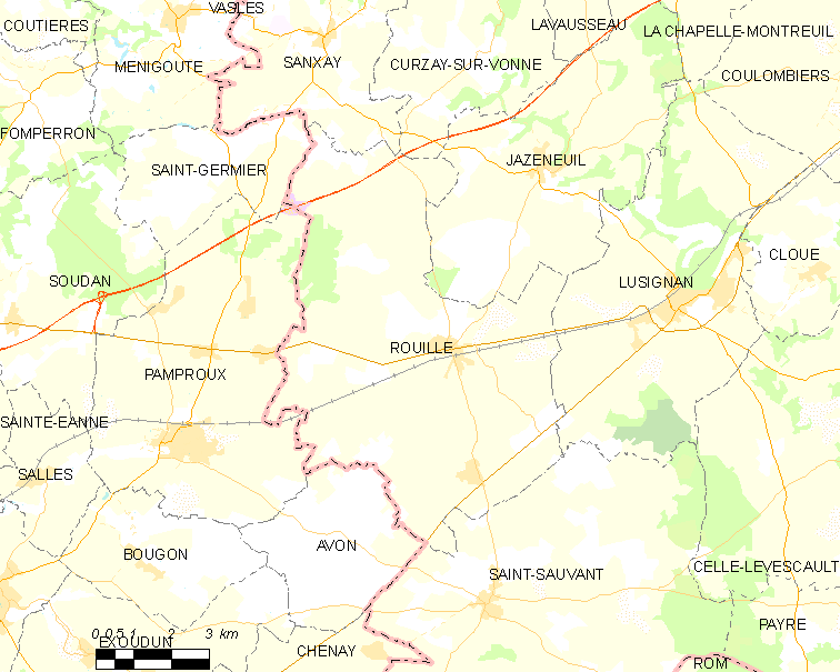 Map of French municipality Rouillé